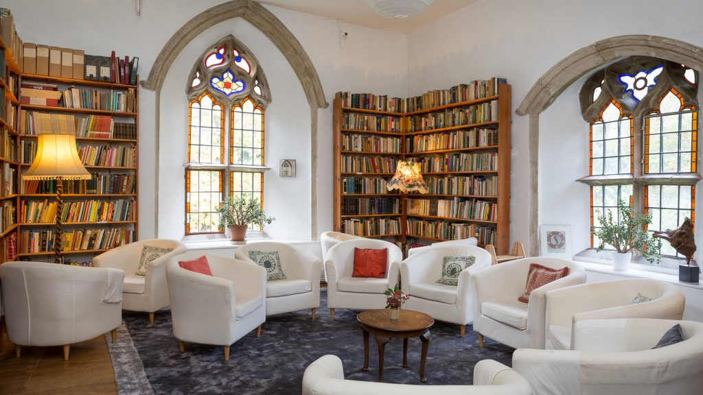 The Abbey, Sutton Courtenay, Oxfordshire, England